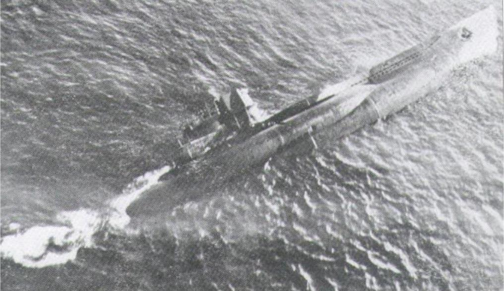 U-boat 'U-617'. Ran aground near Melilla, at a position 35.38N, 03.27W, after British air attack 12 Sept, 1943. Wreck destroyed by gunfire from the British ship HMS Hyacinth and the Australian ship HMAS Wollongong